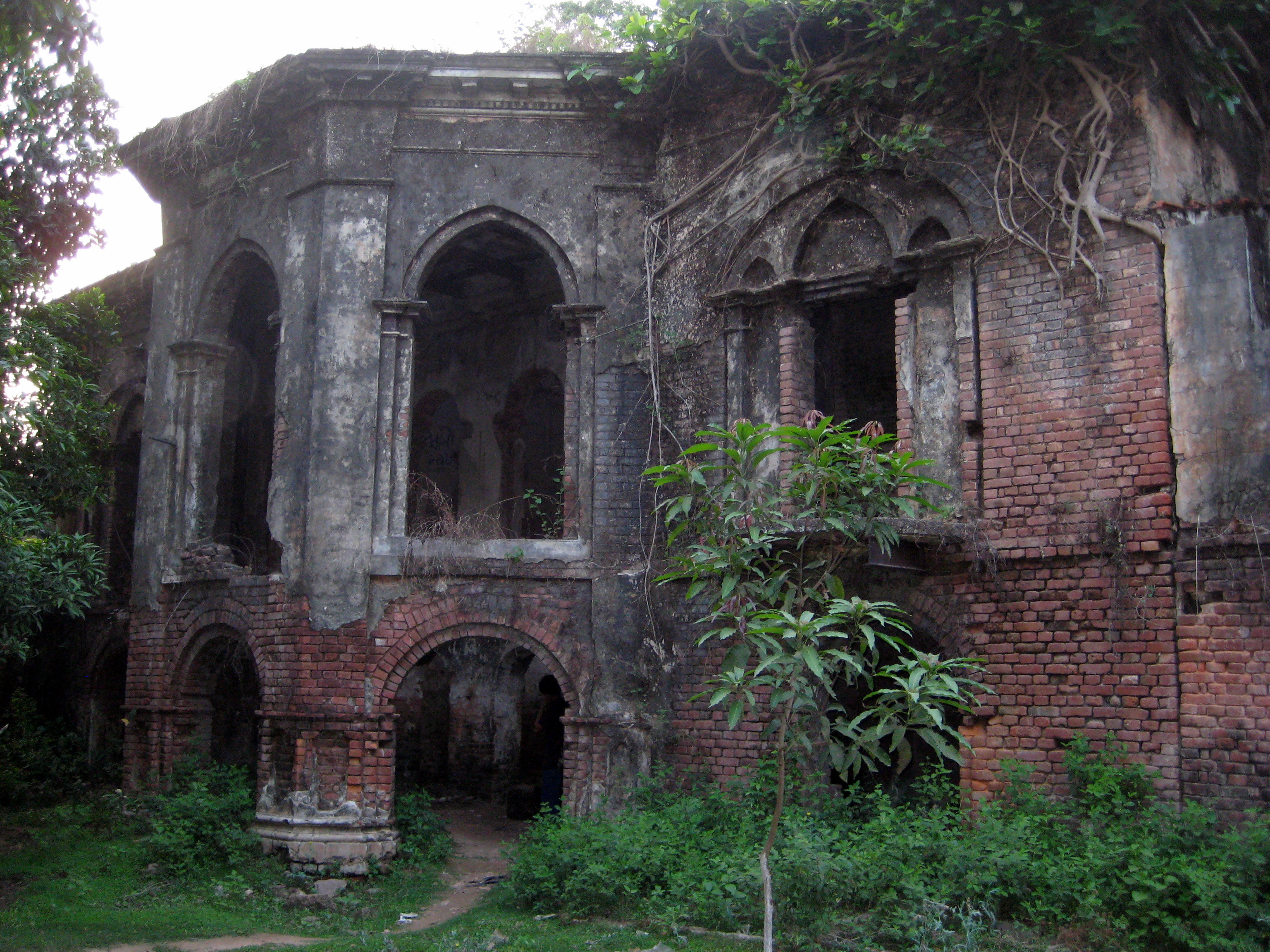 Tales of history says that Raja Dinaj or Dinaraj is the founder of the Dinajpur Rajbari. But others say that after usurping the Ilyas Shahi rule, the famous Raja Ganesh of the early 15th century was the real founder of this house . At the end of the 17th century Srimanta Dutta Chaudhury became the zamindar of Dinajpur and after him, his sister's son Sukhdeva Ghosh inherited the property as Srimanta's son had a premature death.